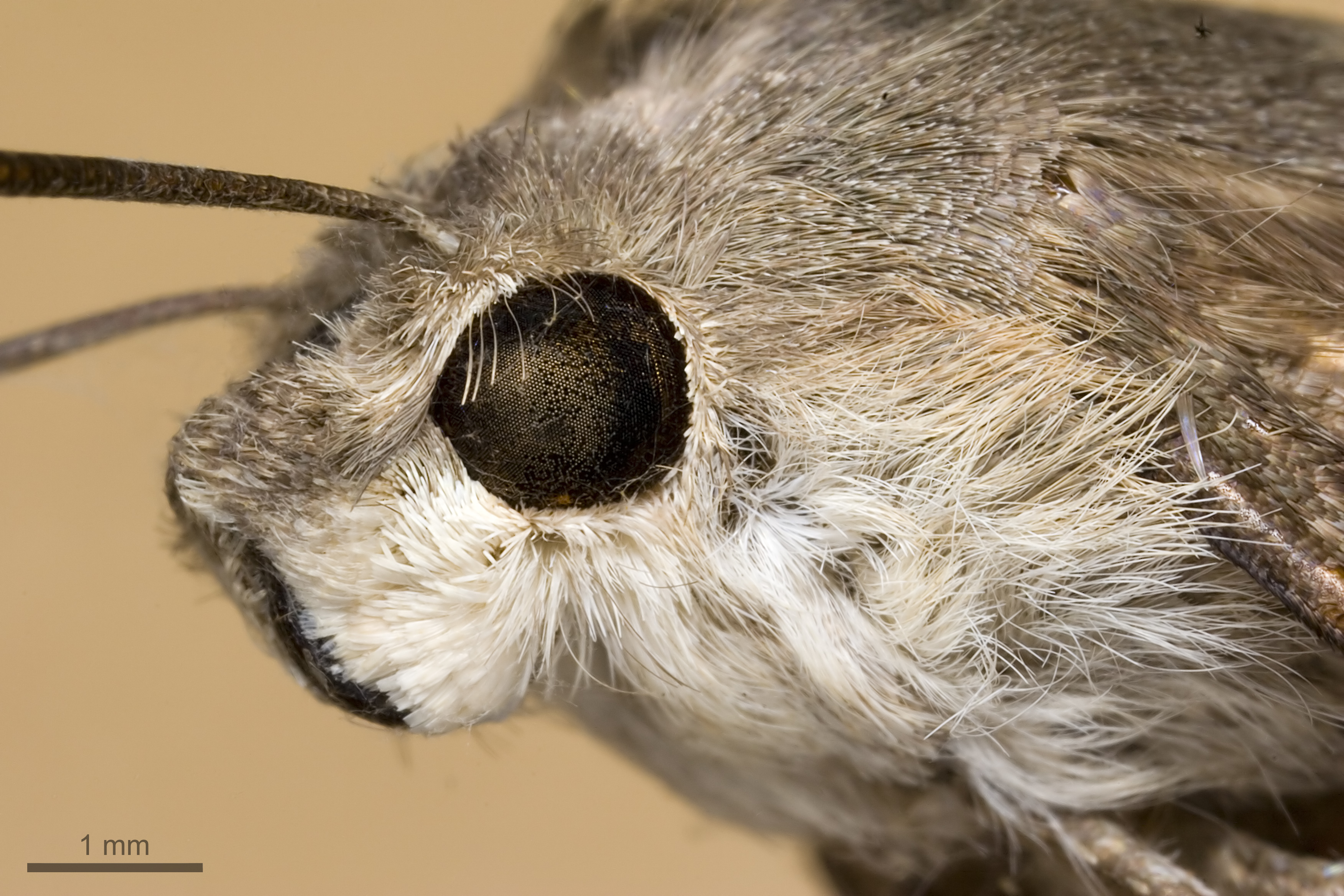 Hummingbird Hawk-moth